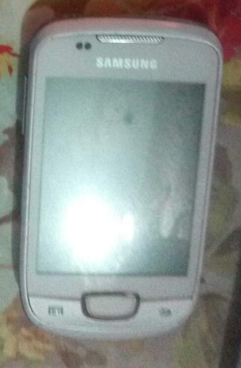 Samsung Galaxy Mini White